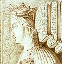 Sepulcro de la reina Juana Manuel de Villena (m. 1381), esposa de Enrique II de Castilla. Se encuentra en la capilla de los Reyes Nuevos de la catedral de Toledo.